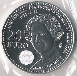 Reverse of a 20 Euro coin depicting Clara Campoamor.